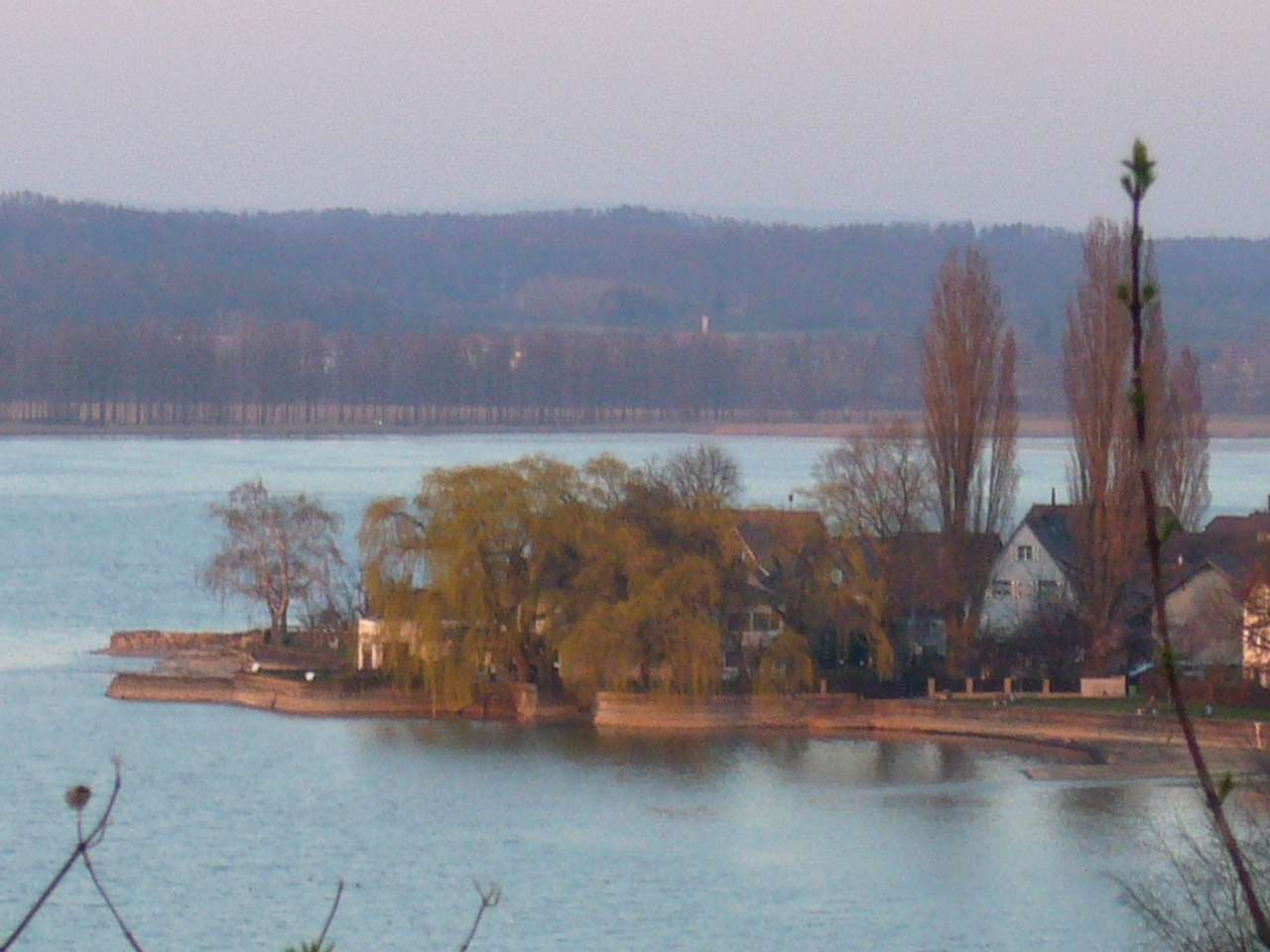 Part of Ermatingen, village in the canton of Thurgau, Switzerland. Picture taken by Peter Berger. March 26, 2007.